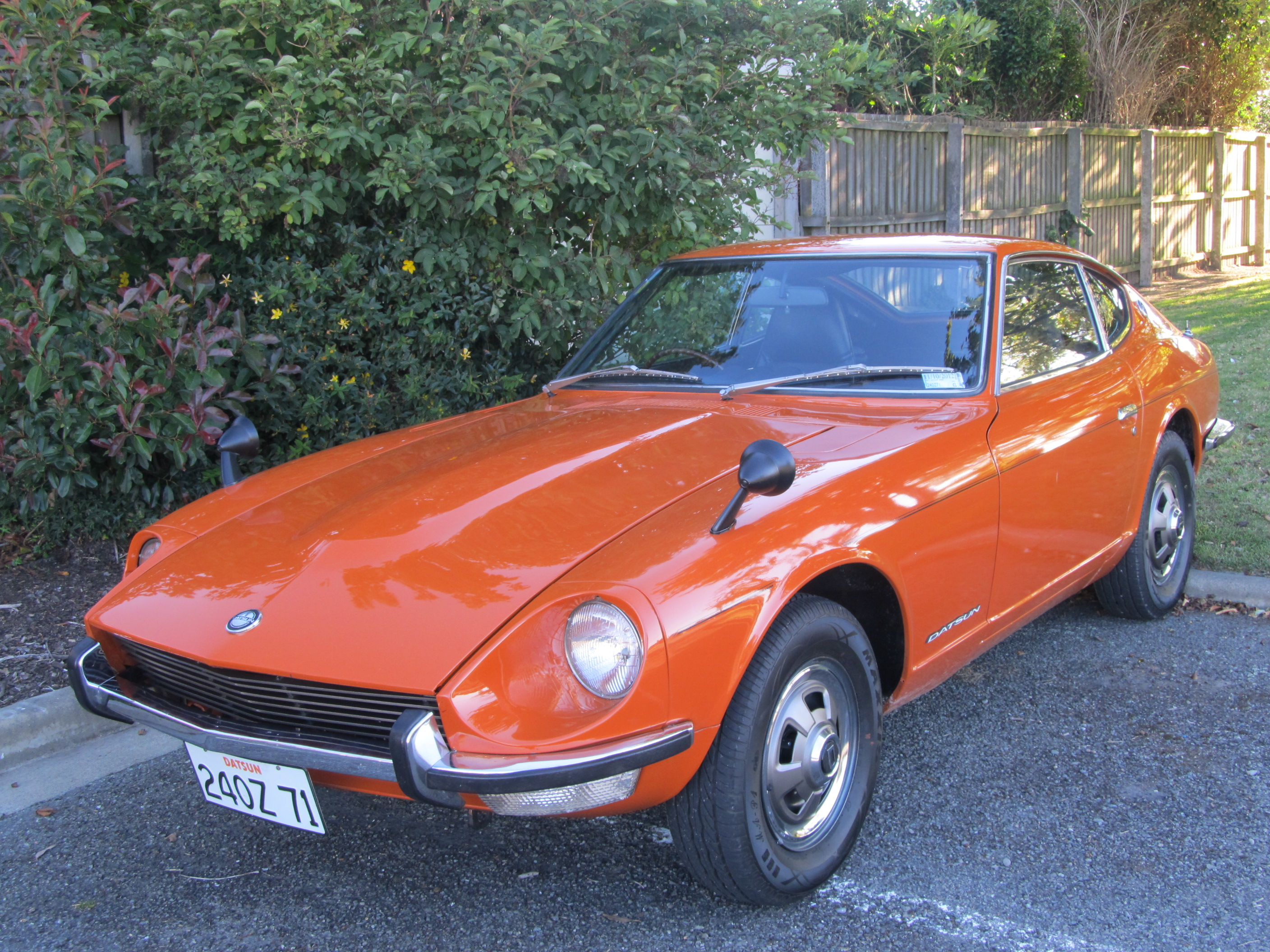 24OZ71 This was tucked away at the far end of a pub car park, and clearly the owner - who I met a few weeks later at a classic car show - went to some effort to park it so it couldn't be damaged! I don't think I've ever seen a nicer 240Z than this though. The first Japanese car to be regarded as a classic? I talked to the owner for a while at the show I mentioned above and he had quite a strong opinion on the 240Z being the only 'real' one. He didn't speak too kindly of the 260Z and 280ZX...